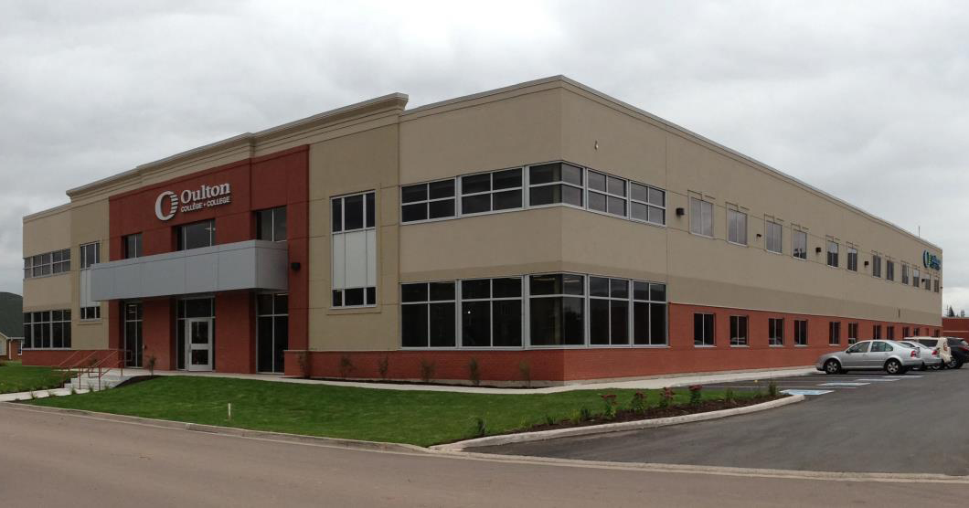 Opened in 2012, the Flanders Court campus servces as the main building for Oulton College